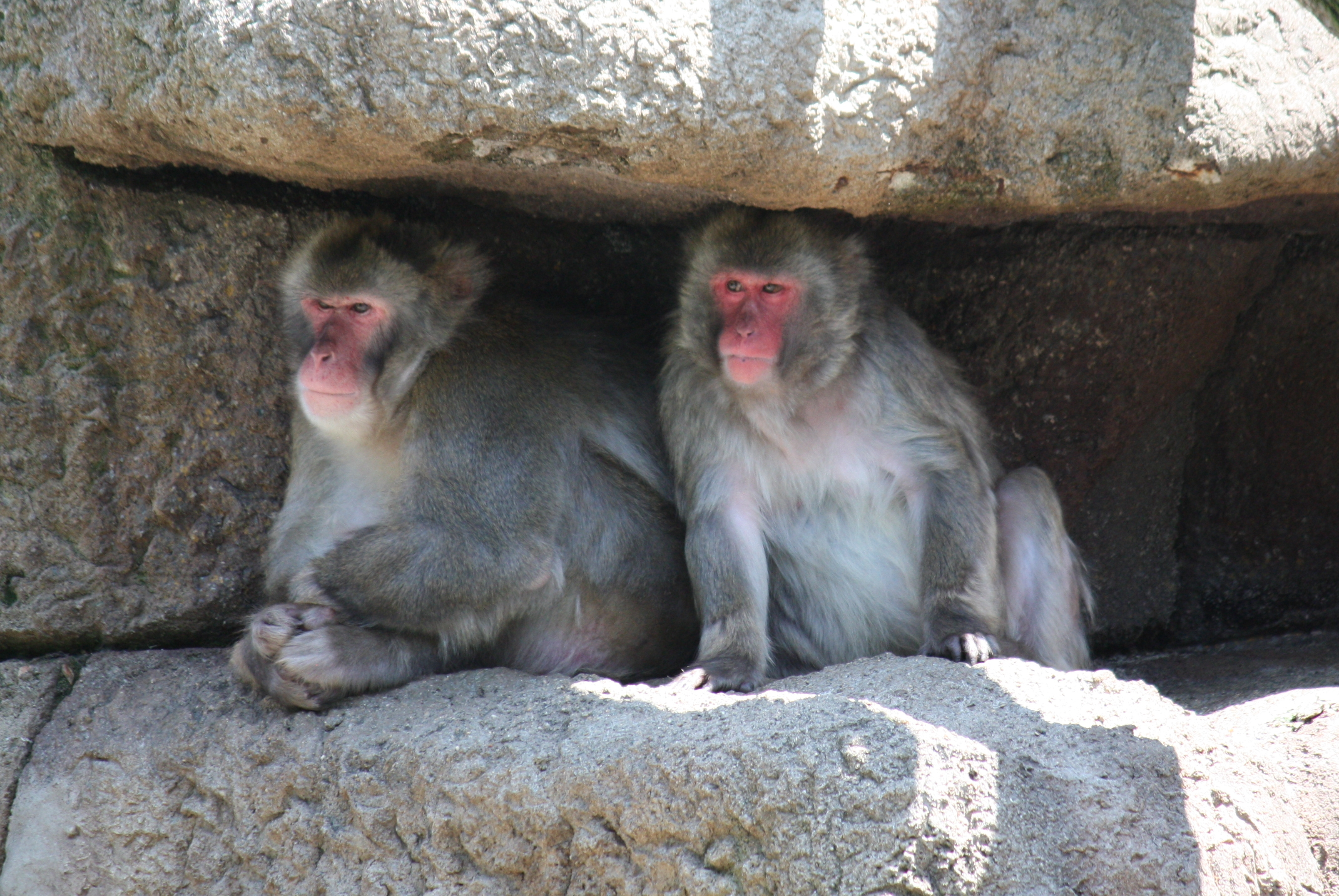 Japanese Macaque Macaca fuscata at Cincinnati Zoo